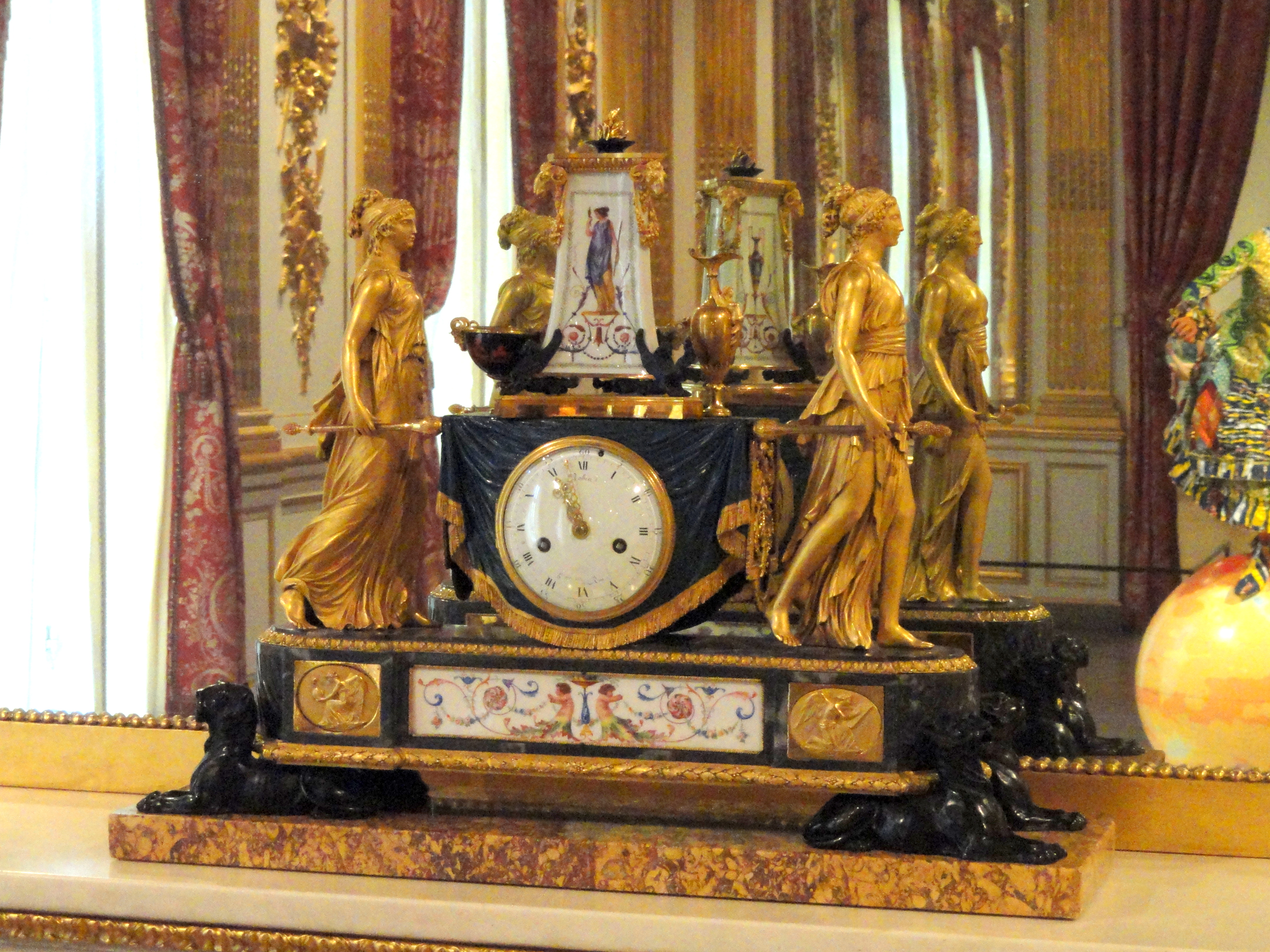 Exhibit in the Corcoran Gallery of Art, Washington, D.C., USA. There were no prohibitions against photography in the museum. Artwork is in the public domain because the artist died more than 70 years ago.